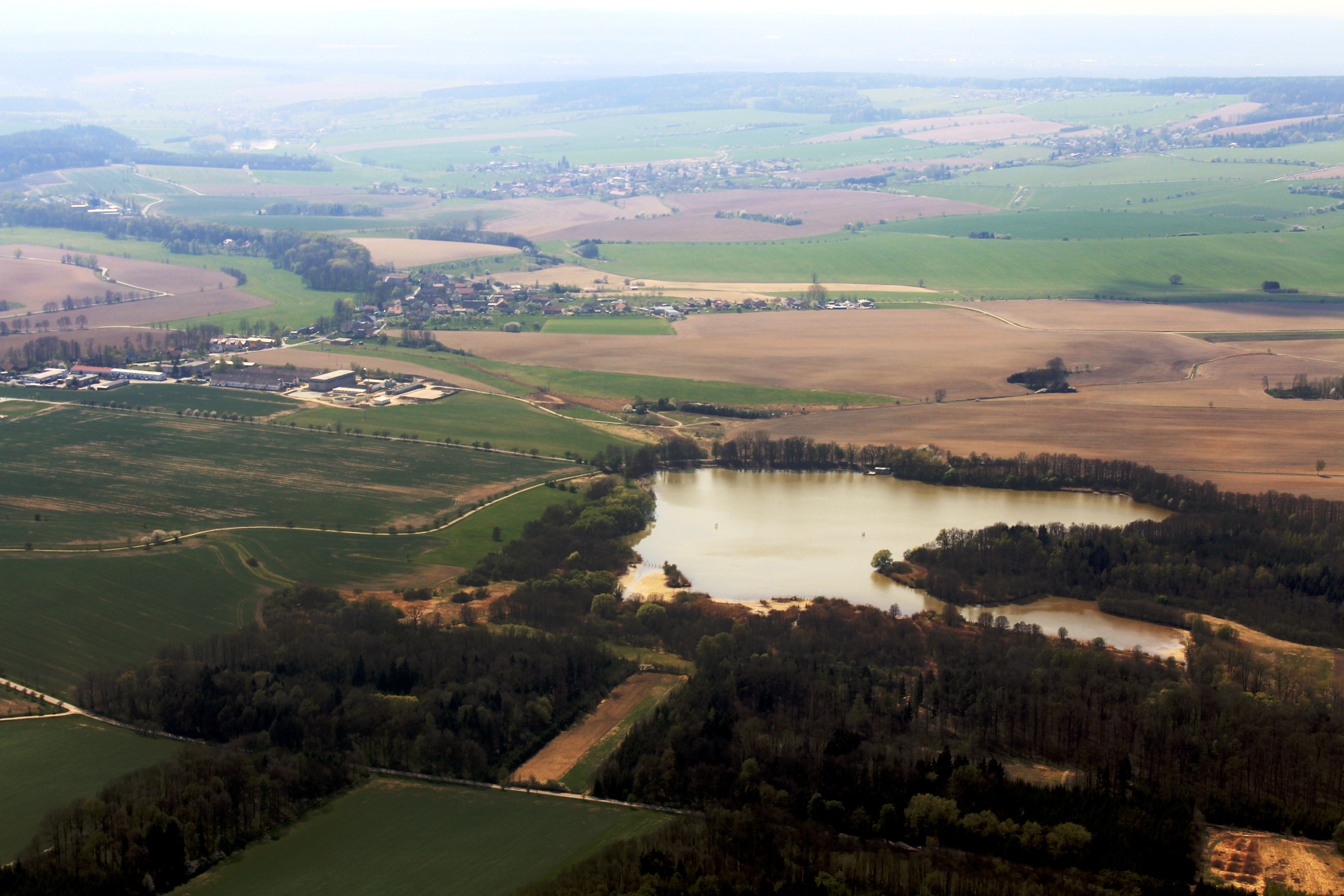 Village Černíkovice over pond Černíkovický rybník in Rychnov nad Kněžnou District from air, eastern Bohemia, Czech Republic